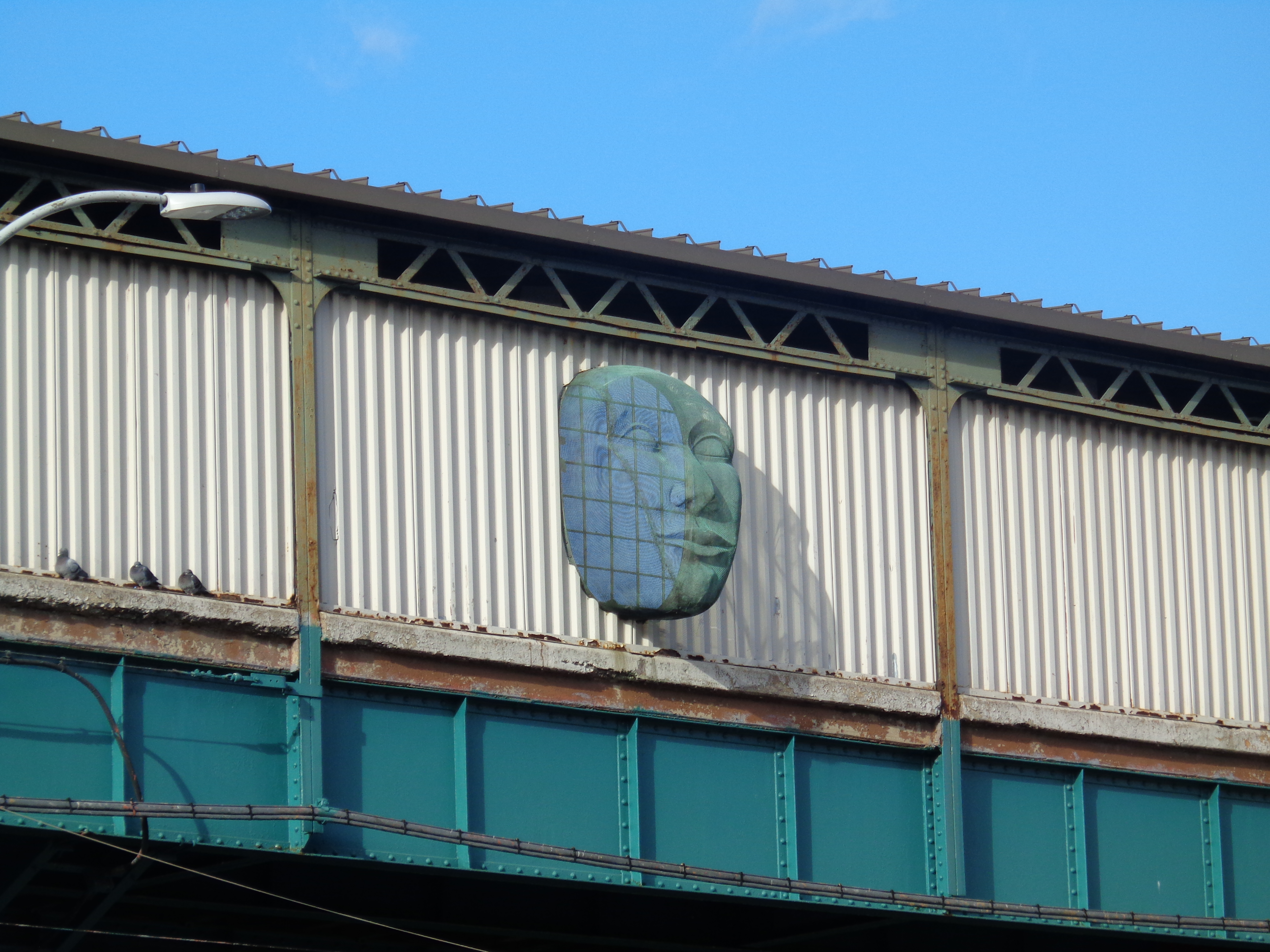 Looking at the Jamaica-bound platform of the Woodhaven Boulevard BMT station from the new Q52/Q53 SBS stop, at Woodhaven Boulevard and the south side of Jamaica Avenue, in Woodhaven, Queens. This is the first day of Select Bus Service. The artwork resembles a face.